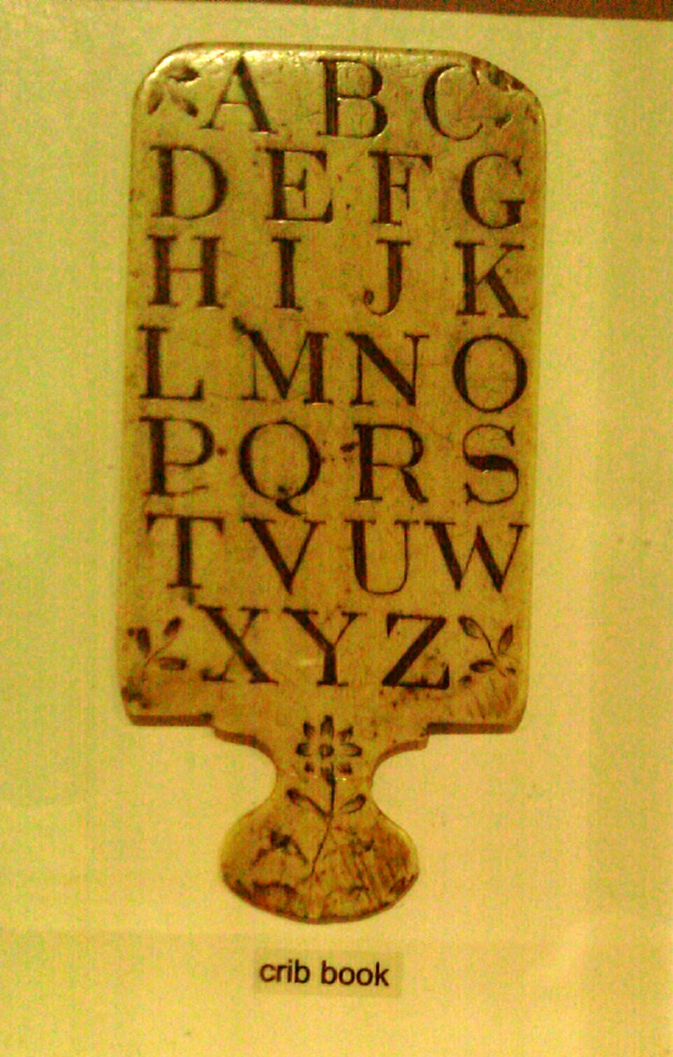 Crib book in Derby Museums